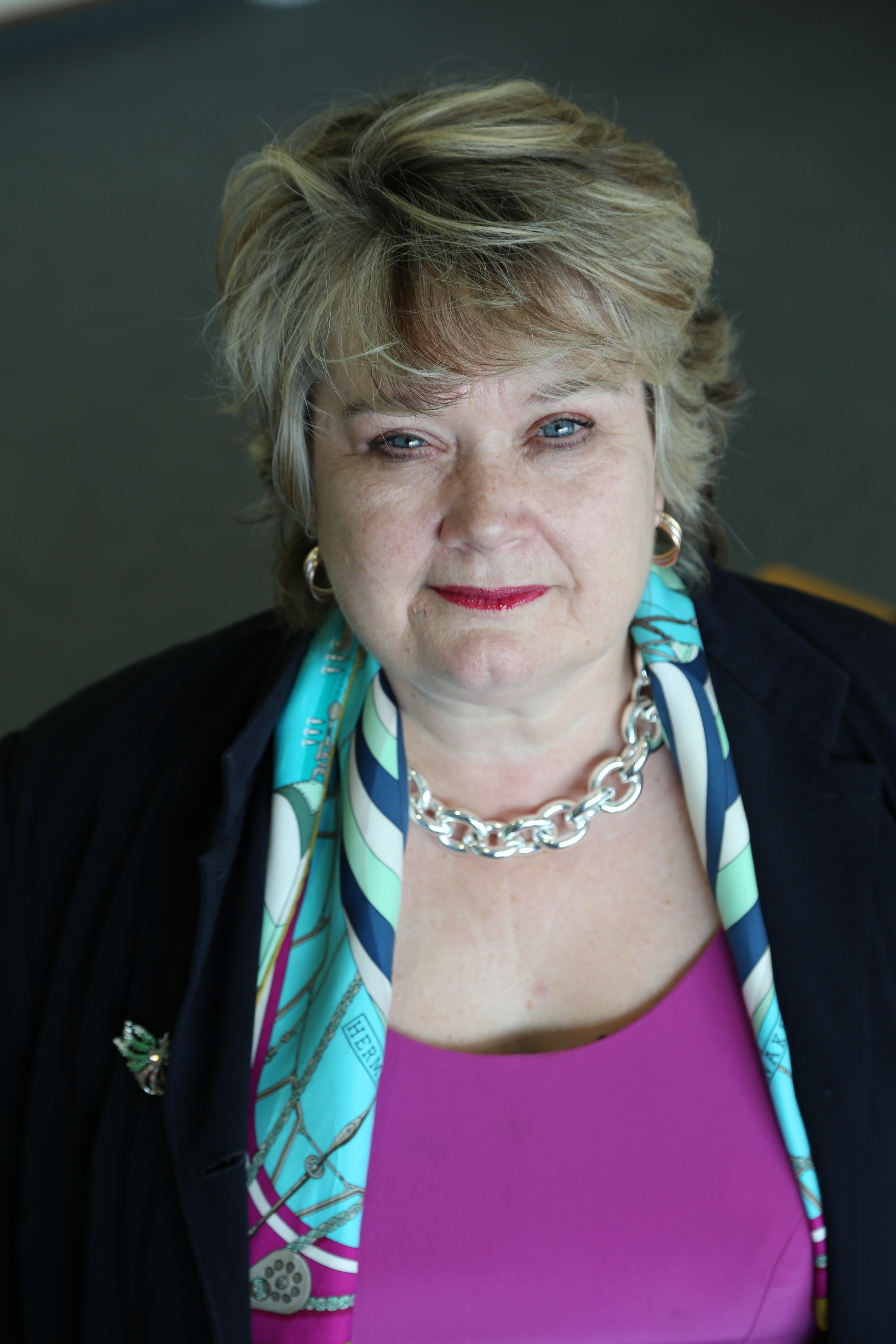 Professor Heather McGregor